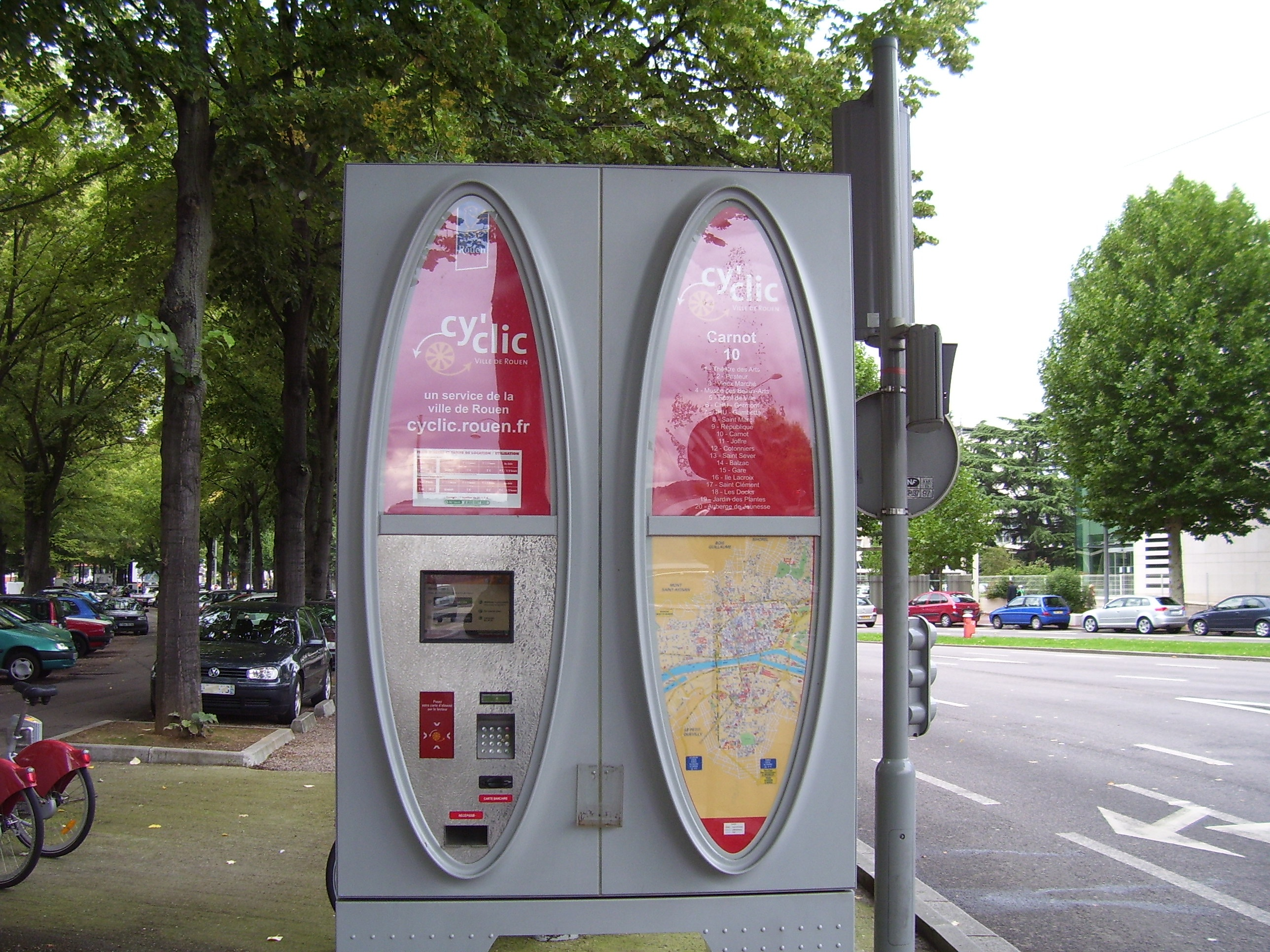 Cy'clic station 10 "Carnot" in Rouen, Haute-Normandie, France.